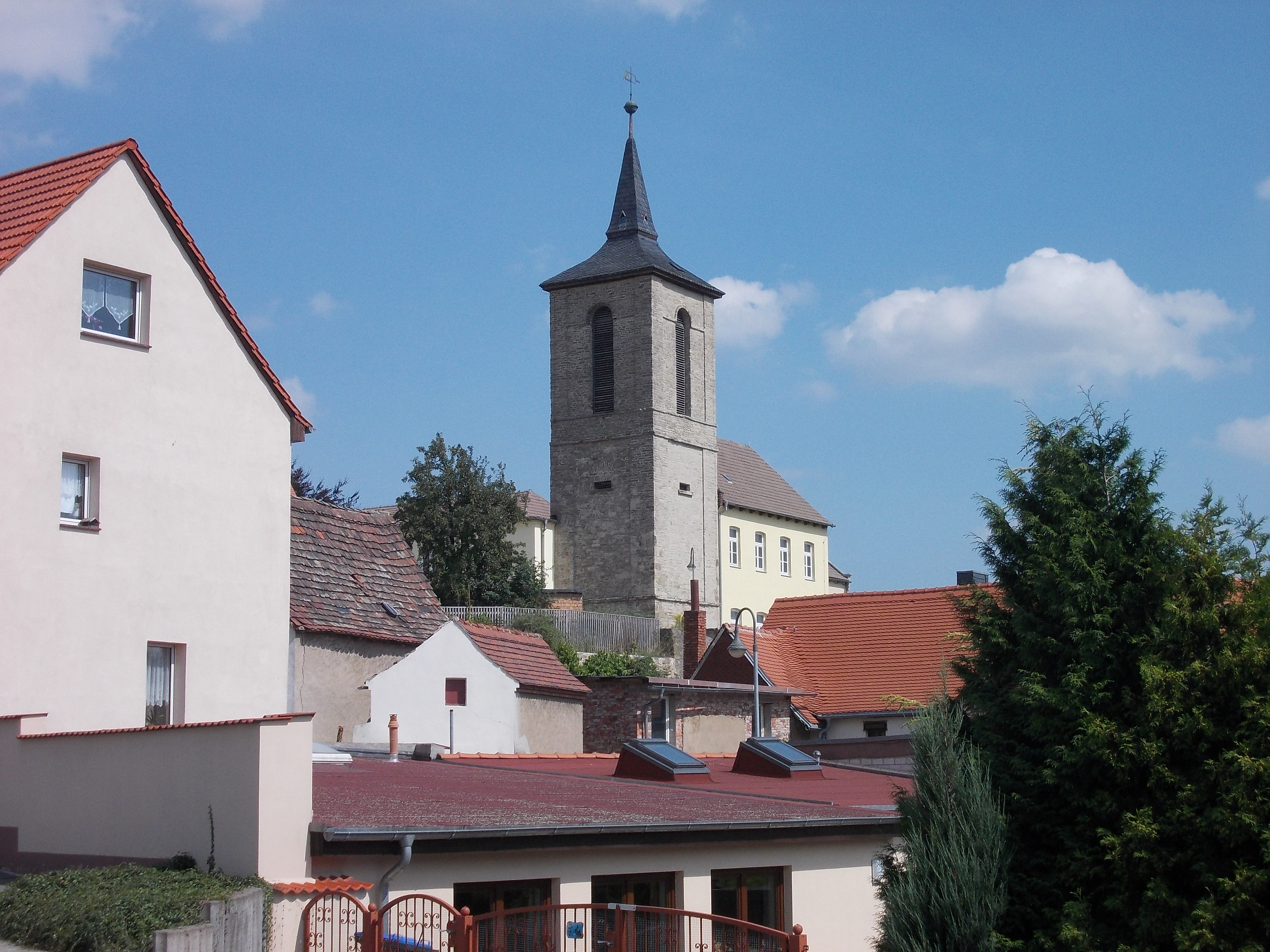 View of the bell tower of the former monastery in Gerbstedt (district of Mansfeld-Südharz, Saxony-Anhalt)